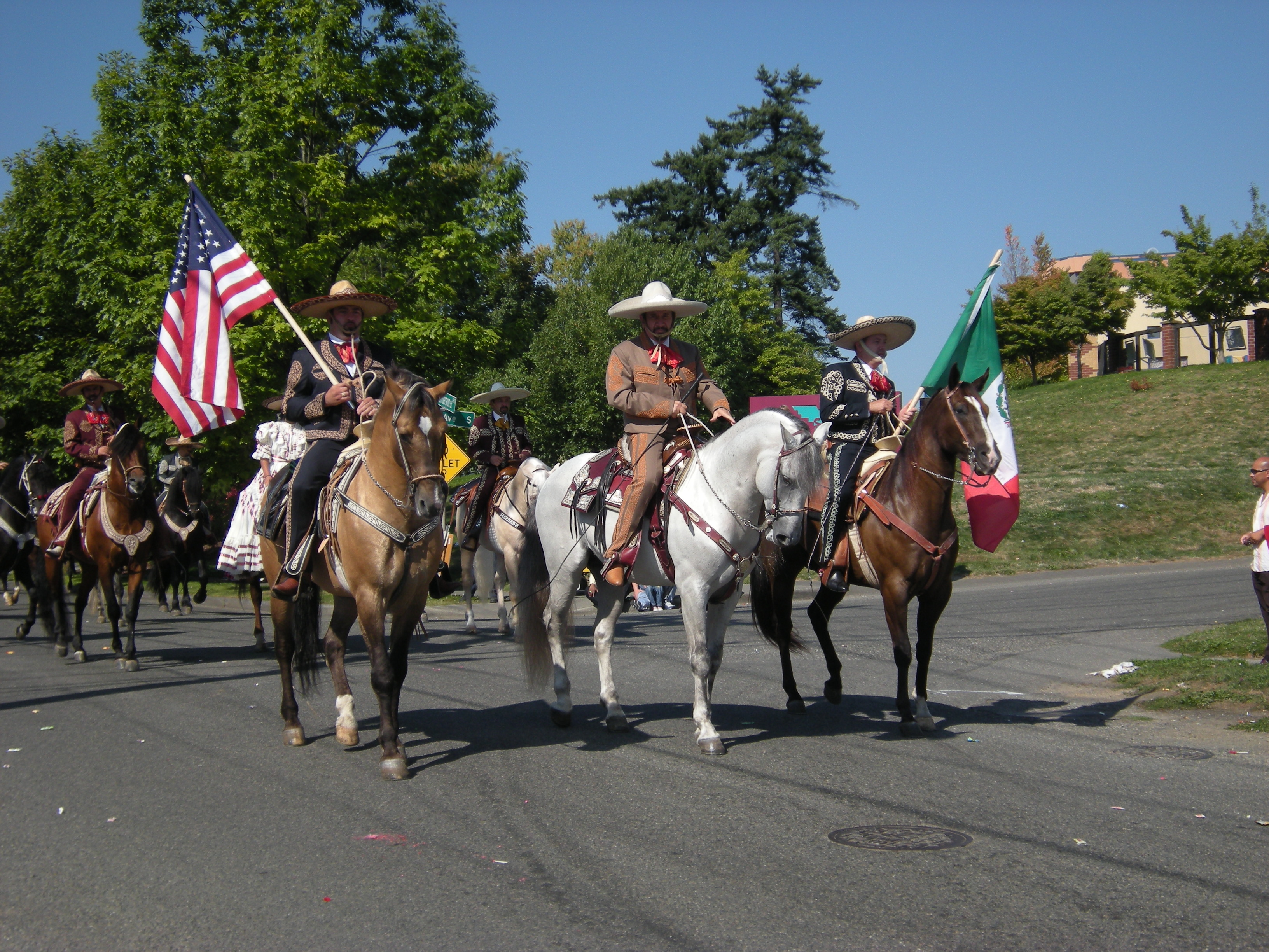 Flagbearers carrying American and Mexican flags near the front of a group of about 80 riders (many in traditional Mexican dress) on horses, 2008 Fiestas Patrias parade, South Park, Seattle, Washington.